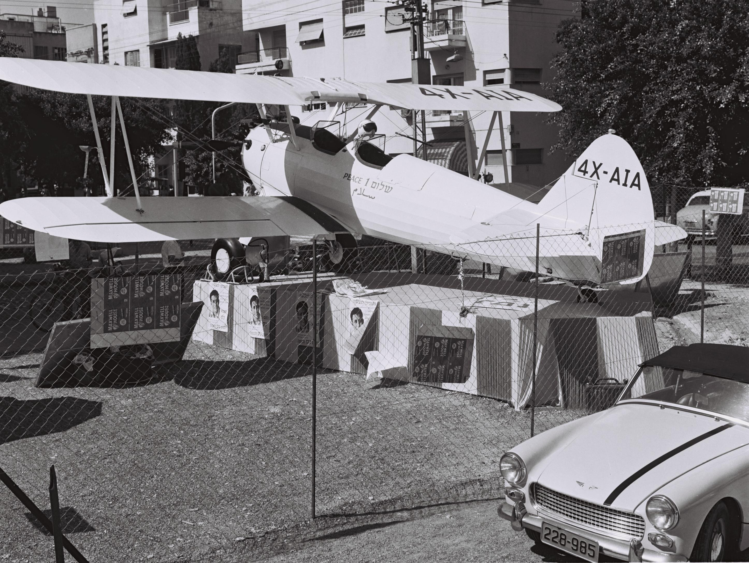 Abie Nathan's Boeing-Stearman Model 75 Peace Plane use by him in his 6th Knesset election campaign.